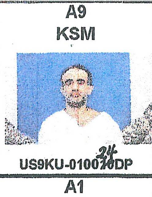 Previously unpublished photo of Khalid Sheikh Mohammed shortly after being transferred to the Guantanamo Bay concentration camp in September 2006. Photograph also shows two arms of soldiers' camouflaged jackets holding him. The photo was taken from a cell-assignment chart at the covert high-security Camp 7, and was obtained by reporters of MClatchyDC.